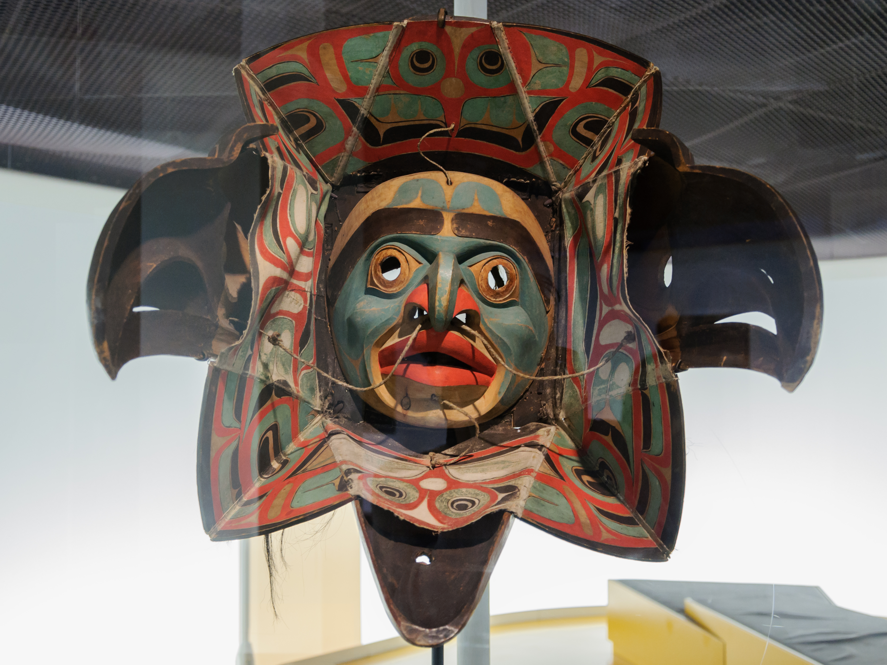 Nuxalk transformation mask, British Columbia, Canada, 19th century.Linden Museum, Stuttgart, Germany, inv. 019178.Presented during the exhibition La Fabrique des images (The Making of images) - Musée du quai Branly, Paris (February 16, 2010 - July 17, 2011)